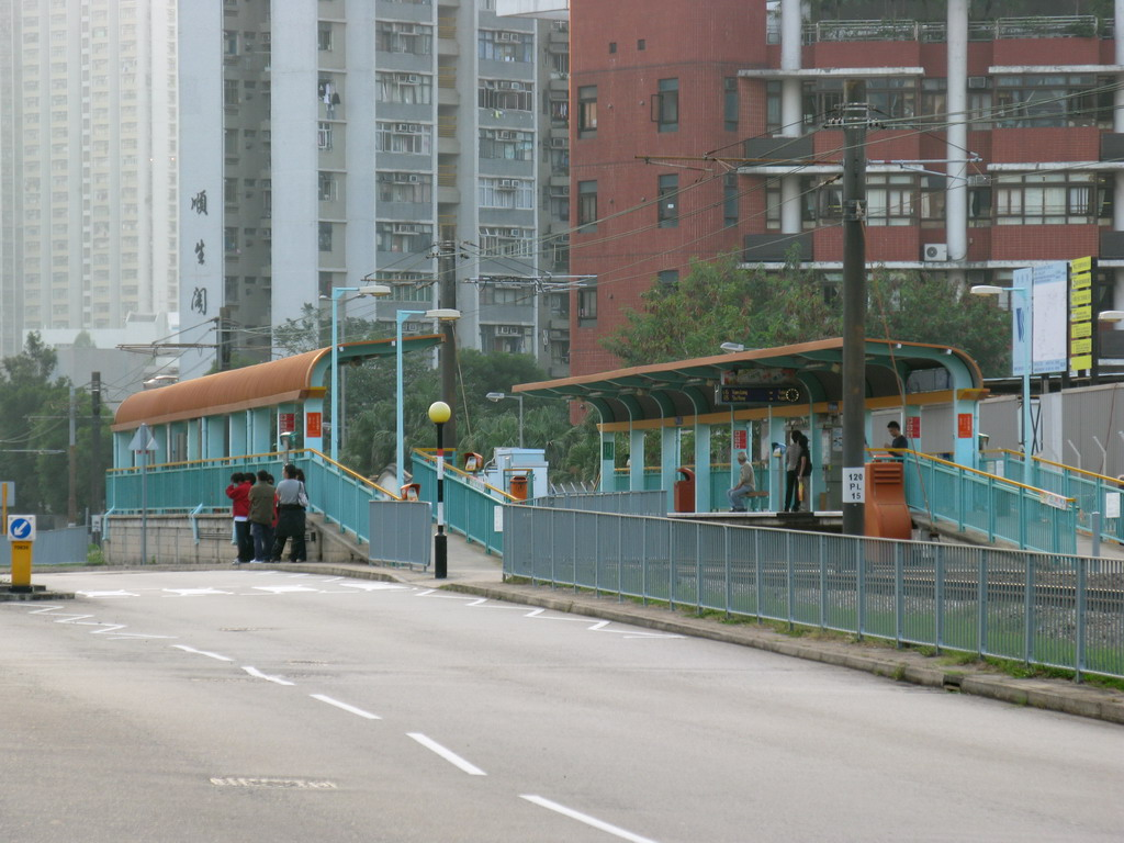 Ching Chung Stop, Light Rail. 中文（香港）: 輕鐵青松站。